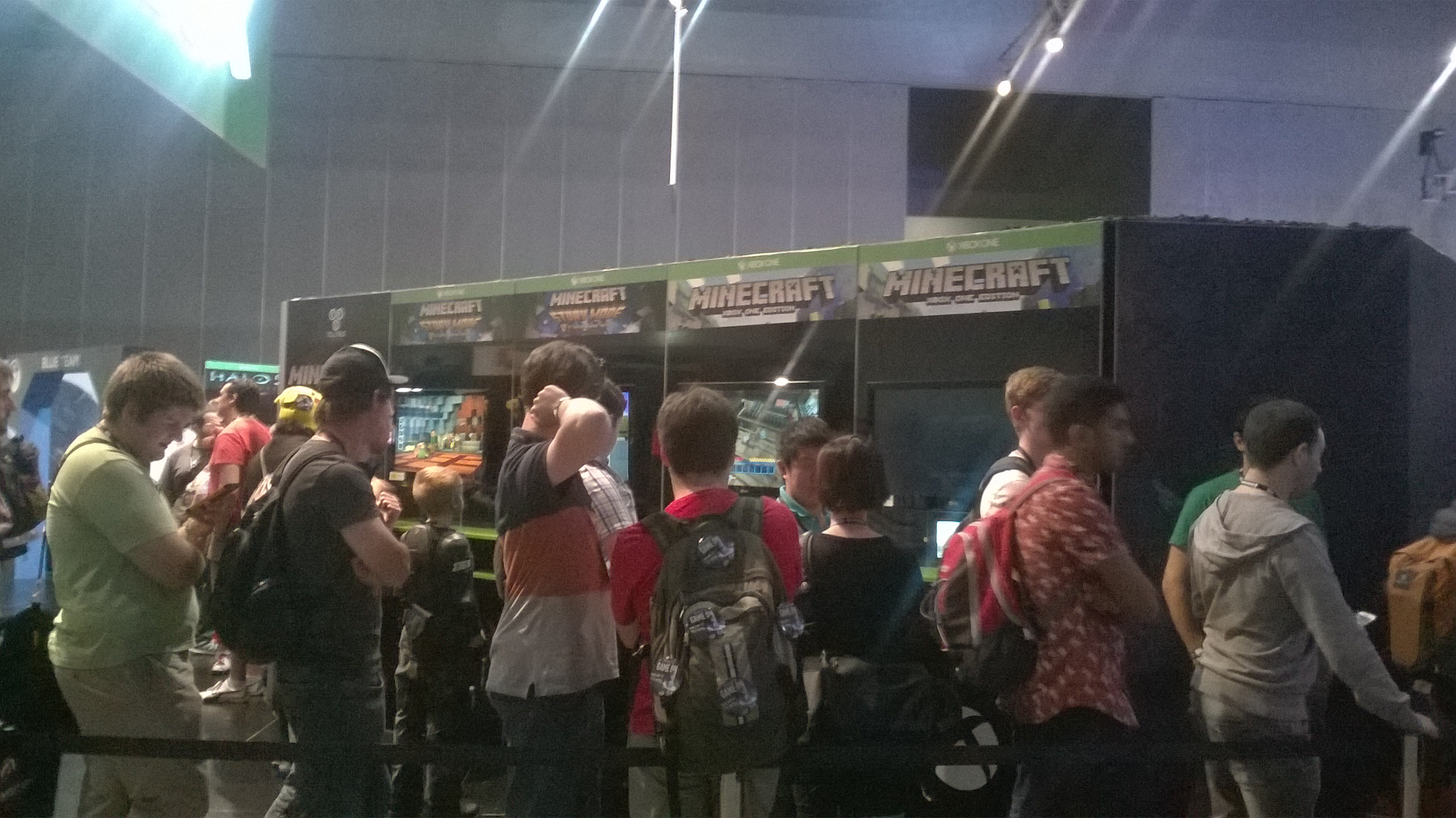 People playing Minecraft: Xbox One Edition and Minecraft: Story Mode Taken at PAX Australia 2015.